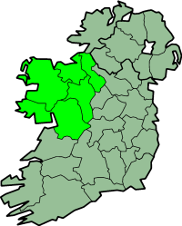 Map showing location of Connacht province, Ireland